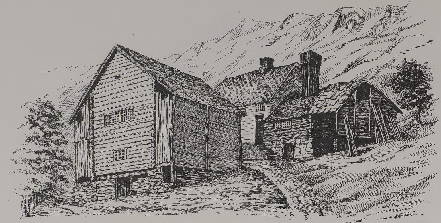 Lithograph of Lydvaloftet in Voss, Norway, in 1888. Lithography: "M. Lyngs lith. Anstalt, Christiania". Based on watercolour by Peter Andreas Blix.